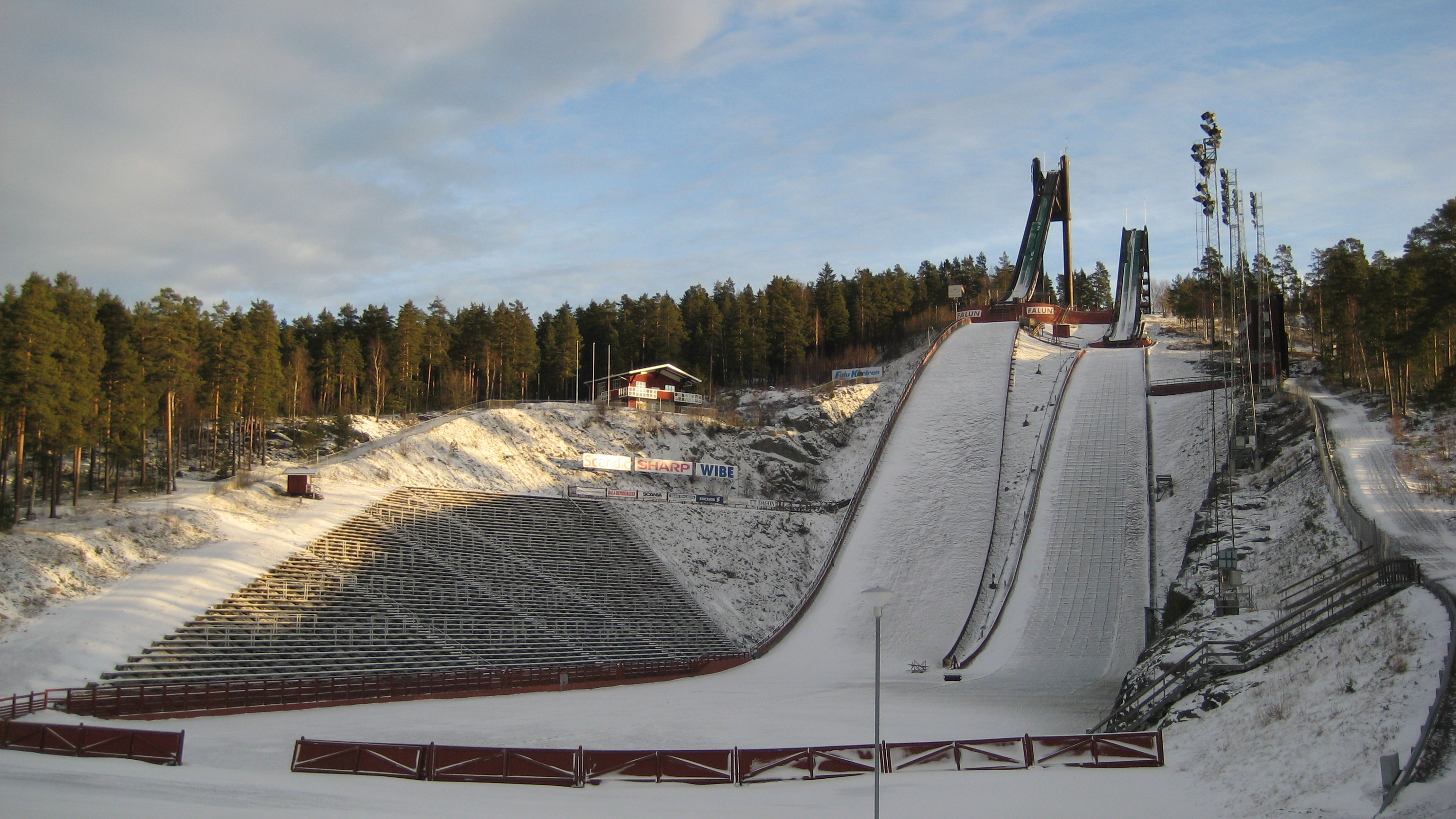 Ski jump "Lugnet" in Falun, Schweden